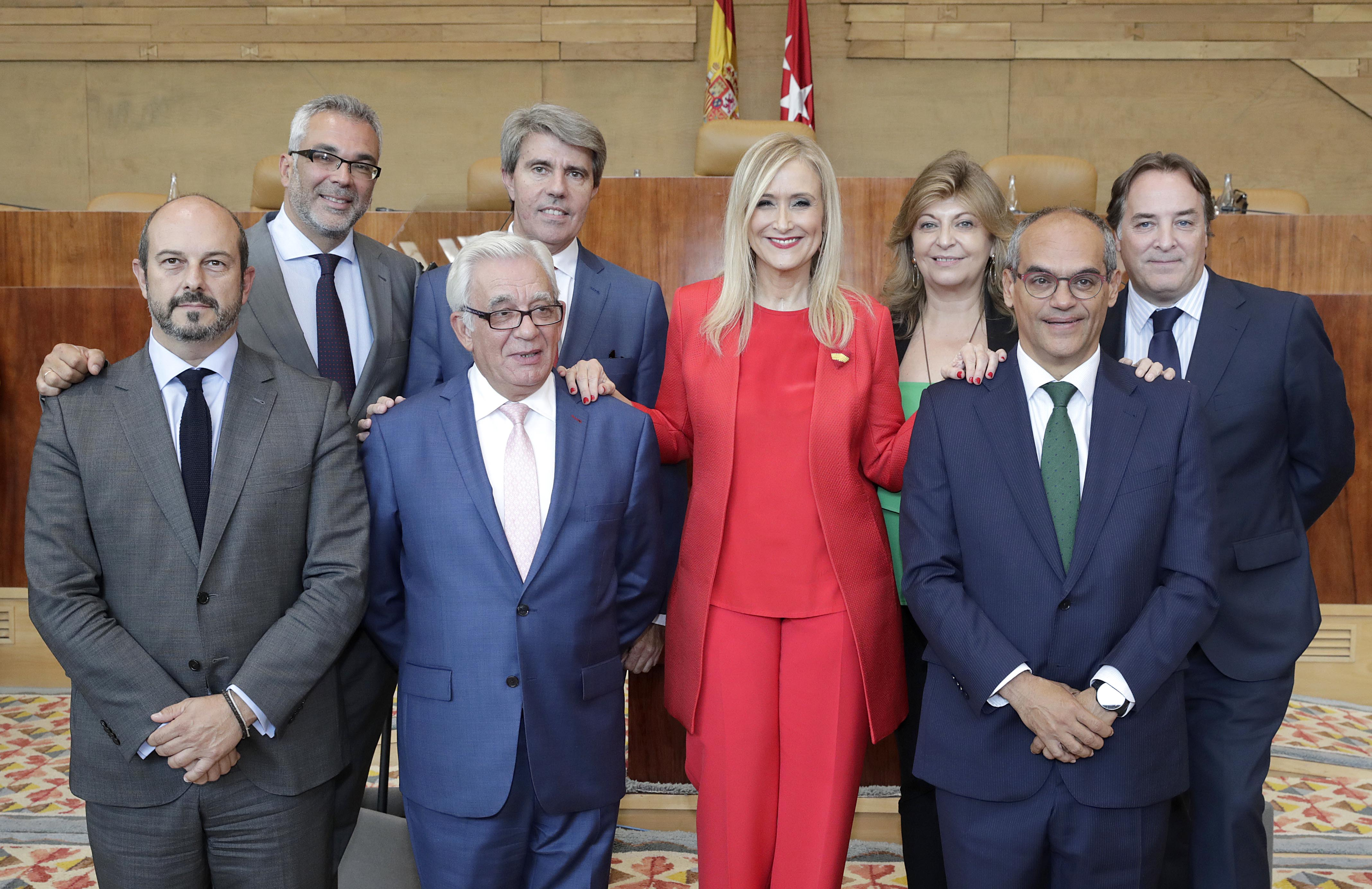 CIFUENTES, EN EL DEBATE SOBRE EL ESTADO DE LA REGIÓN La presidenta de la Comunidad de Madrid, Cristina Cifuentes, comparece en la primera jornada del Debate sobre el Estado de la Región donde dará cuenta de la actividad del Gobierno en este segundo año de la legislatura y presentará algunos de los nuevos proyectos que va a impulsar. Foto. D. Sinova